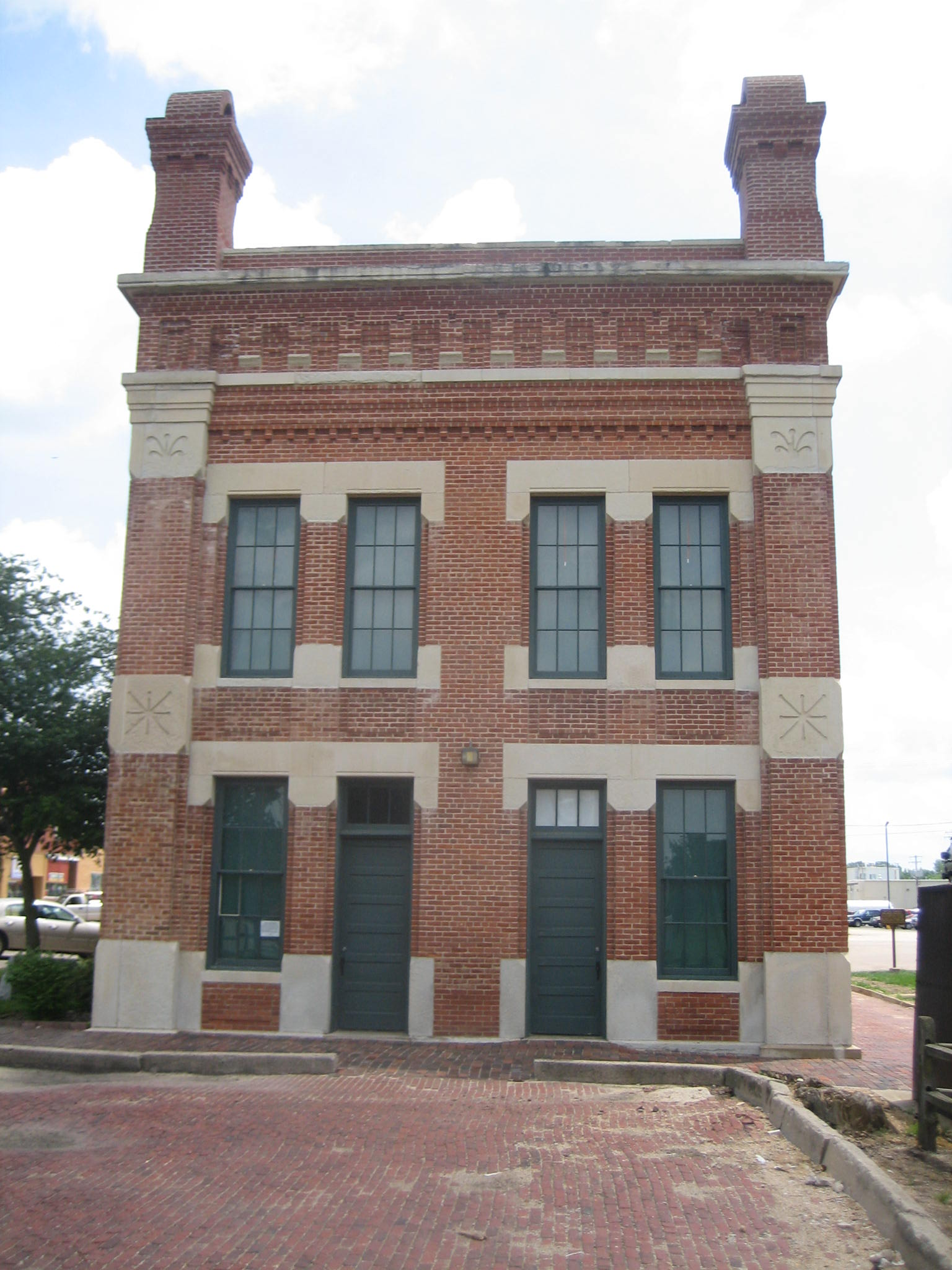 Amboy Illinois Central Depot, Amboy, Illinois, National Register of Historic Places.